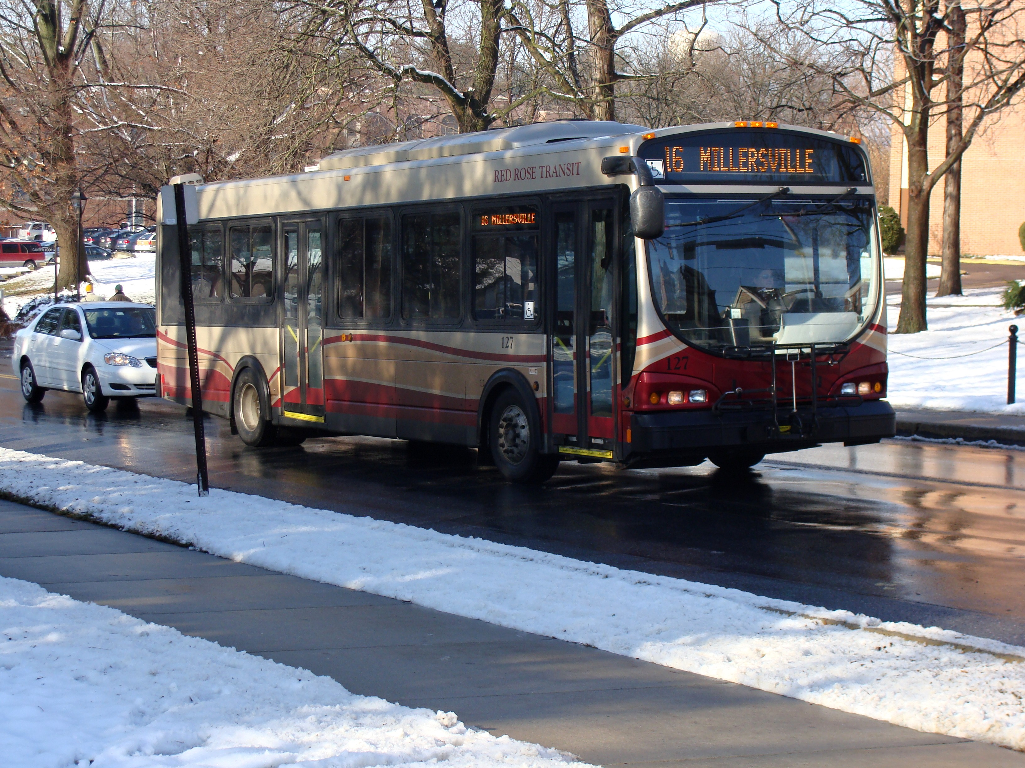 An Optima Opus owned by the Red Rose Transit Authority on Route 16 in Millersville, Pennsylvania inbound to Lancaster.